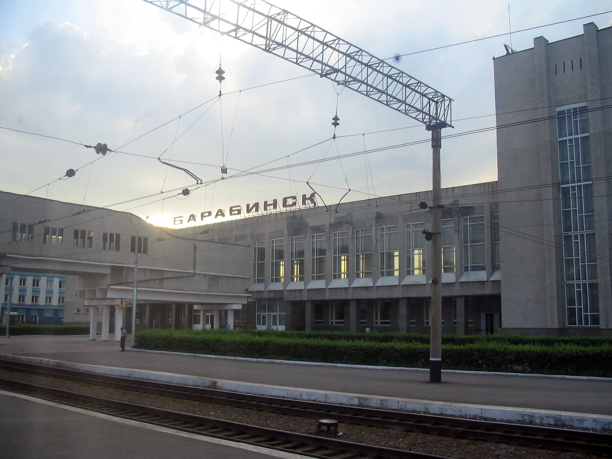 Barabinsk station on trans-Siberian railroad in Barabinsk, Russia